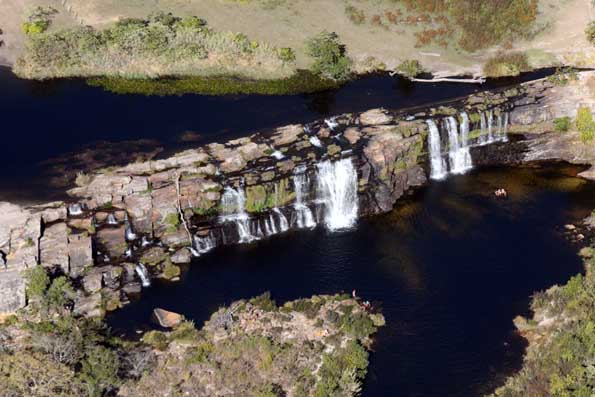 parque nacional serra do cipó and waterfalls